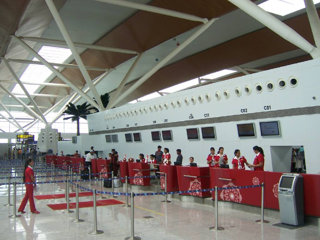 Just a few quick photographs at check-in . . . brilliant place . . . good luck to GMR on the rest of it though , , , Kingfisher check-in area.